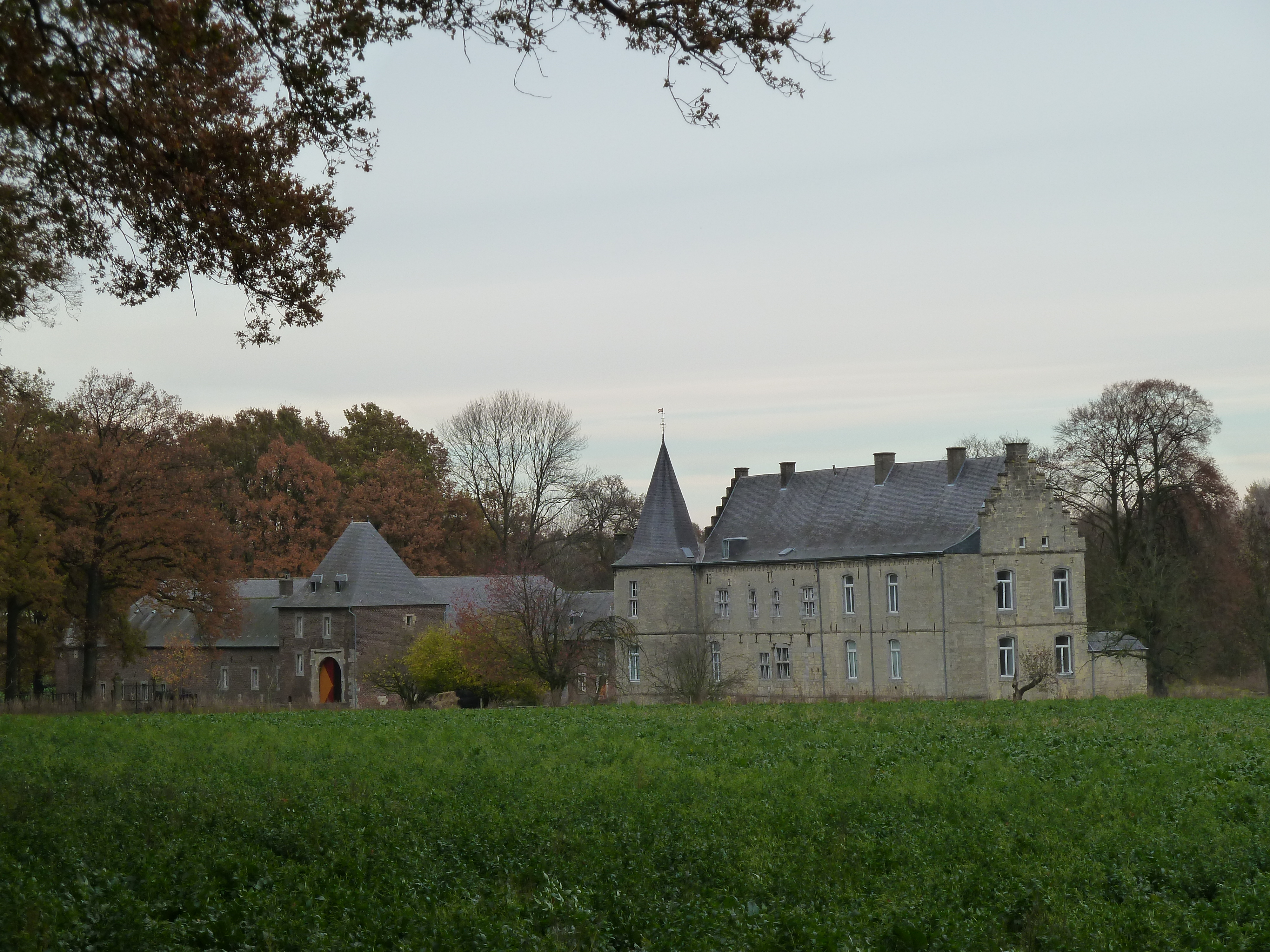 Castle Rivieren, Voerendaal, Limburg, the Netherlands